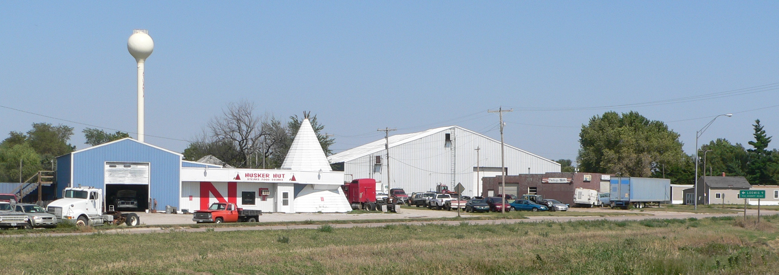 Atlanta, Nebraska, looking northward across U.S. Highway 6/U.S. Highway 34.